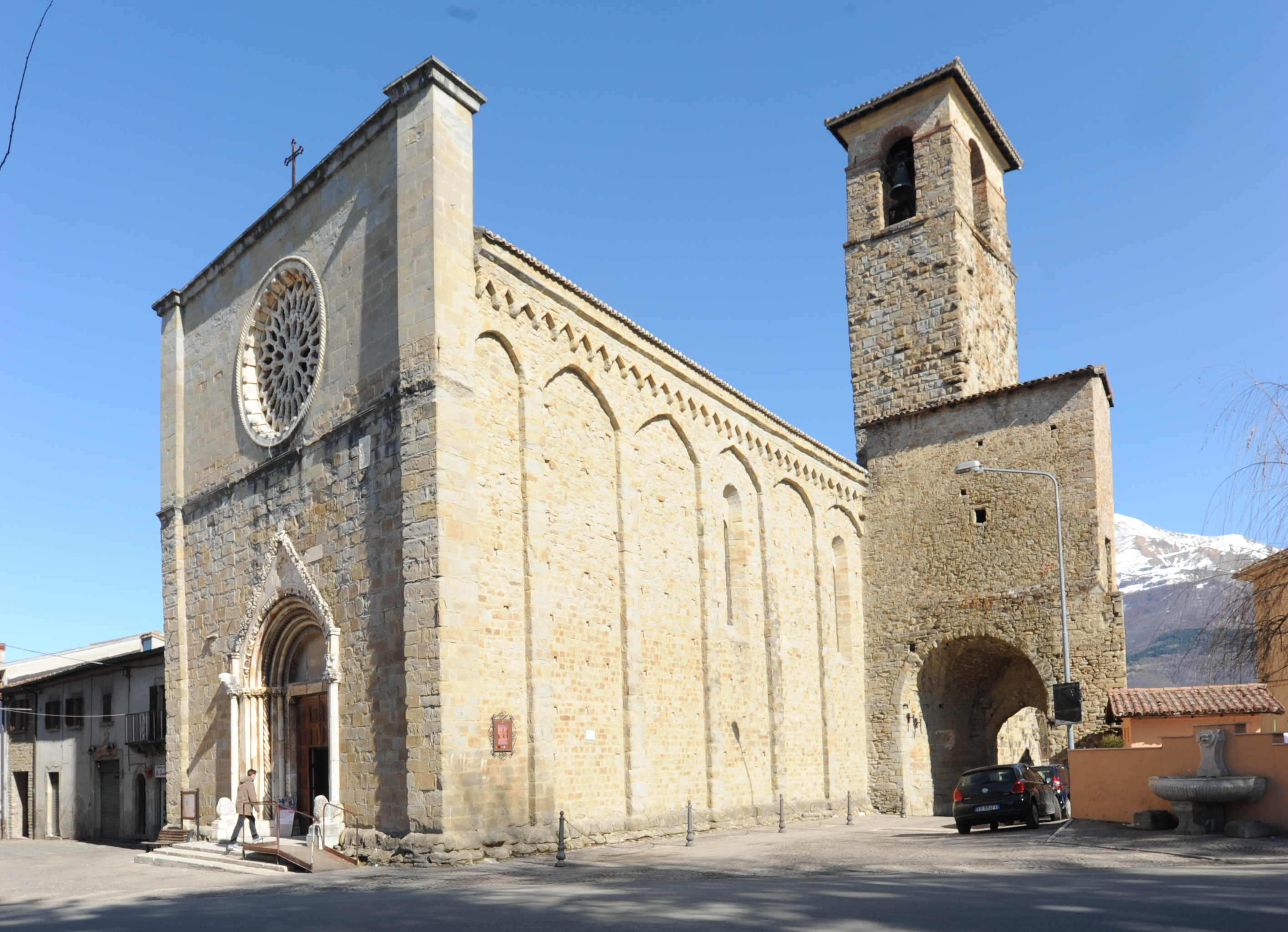 The church of Sant'Agostino in Amatrice with a Gothic portal from 1428